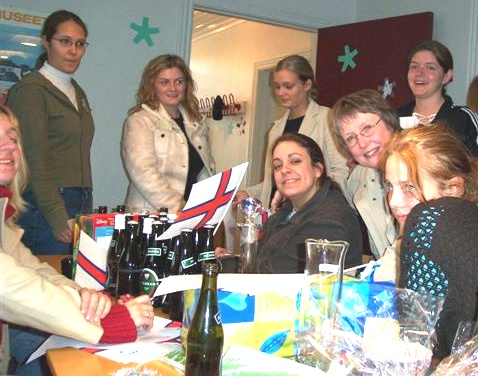 The Faroese popstar Guðrun Sólja Jacobsen (in the middle, right from the flag on the table, sitting and smiling into the camera) just after winning the "Star for an Evening" contest in Danish TV in 2003. Celebration at her school in Vágur, Suðuroy Faroe Islands together with her class and teacher. Guðrun was not only a "Star for an Evening", but became a popular singer since then in Denmark.